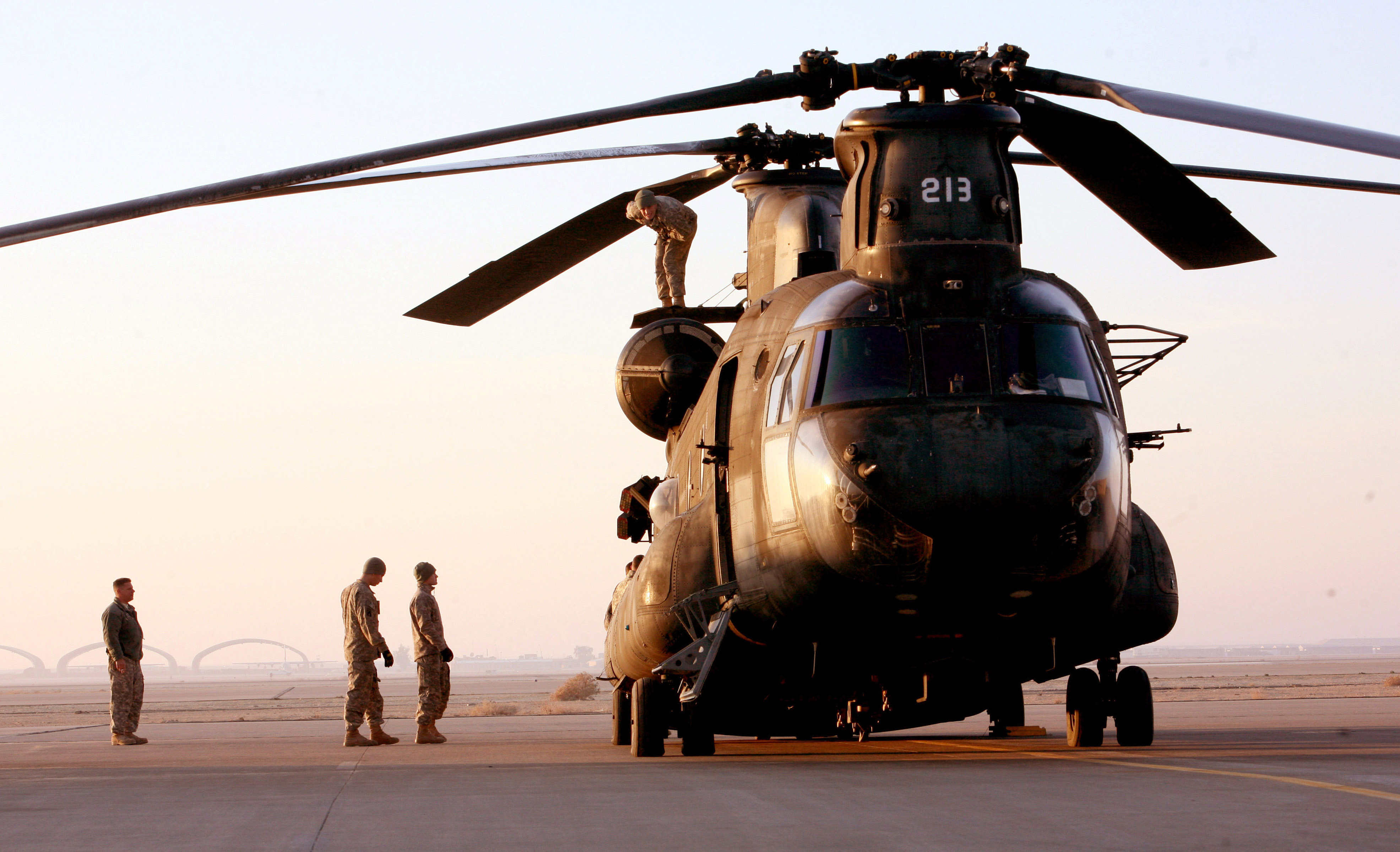 U.S. Army soldiers with Bravo Company, 1st Battalion, 214th Aviation Regiment, examine their CH-47 Chinook helicopter before an aircraft turnover mission at Al Asad Air Base, Iraq, on Dec. 1, 2009. The aircraft are scheduled to be flown to Talil, Iraq, where Bravo Company, 5th Battalion, 159th Aviation Regiment will use them for support to Multi-National Division - South.